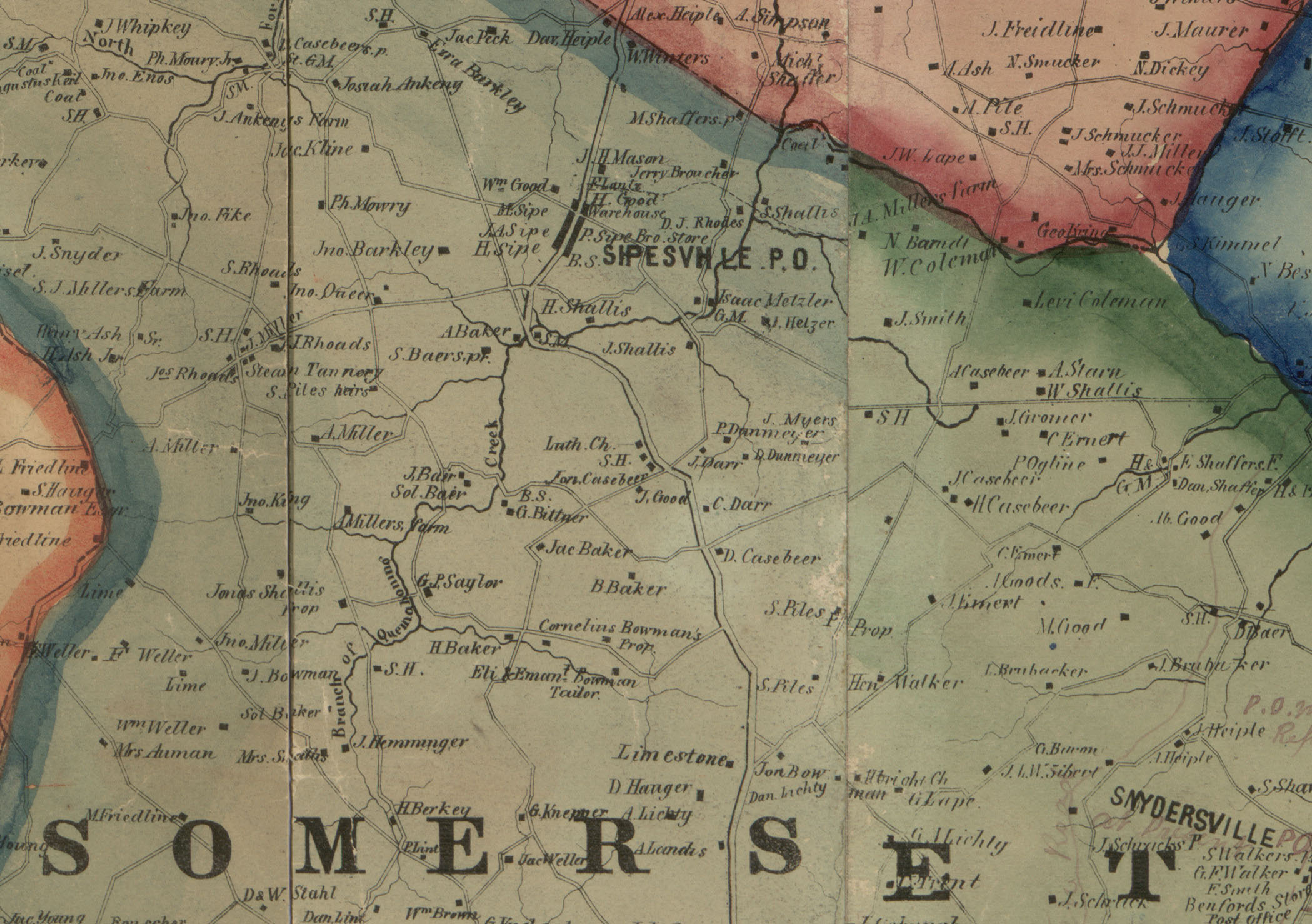 Map of Sipesville, Somerset County, Pennsylvania, taken from 1860 Edward L. Walker map of Somerset County available at the Library of Congress website